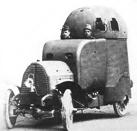 Austro-Daimler Armoured Fighting Vehicle - Prototype